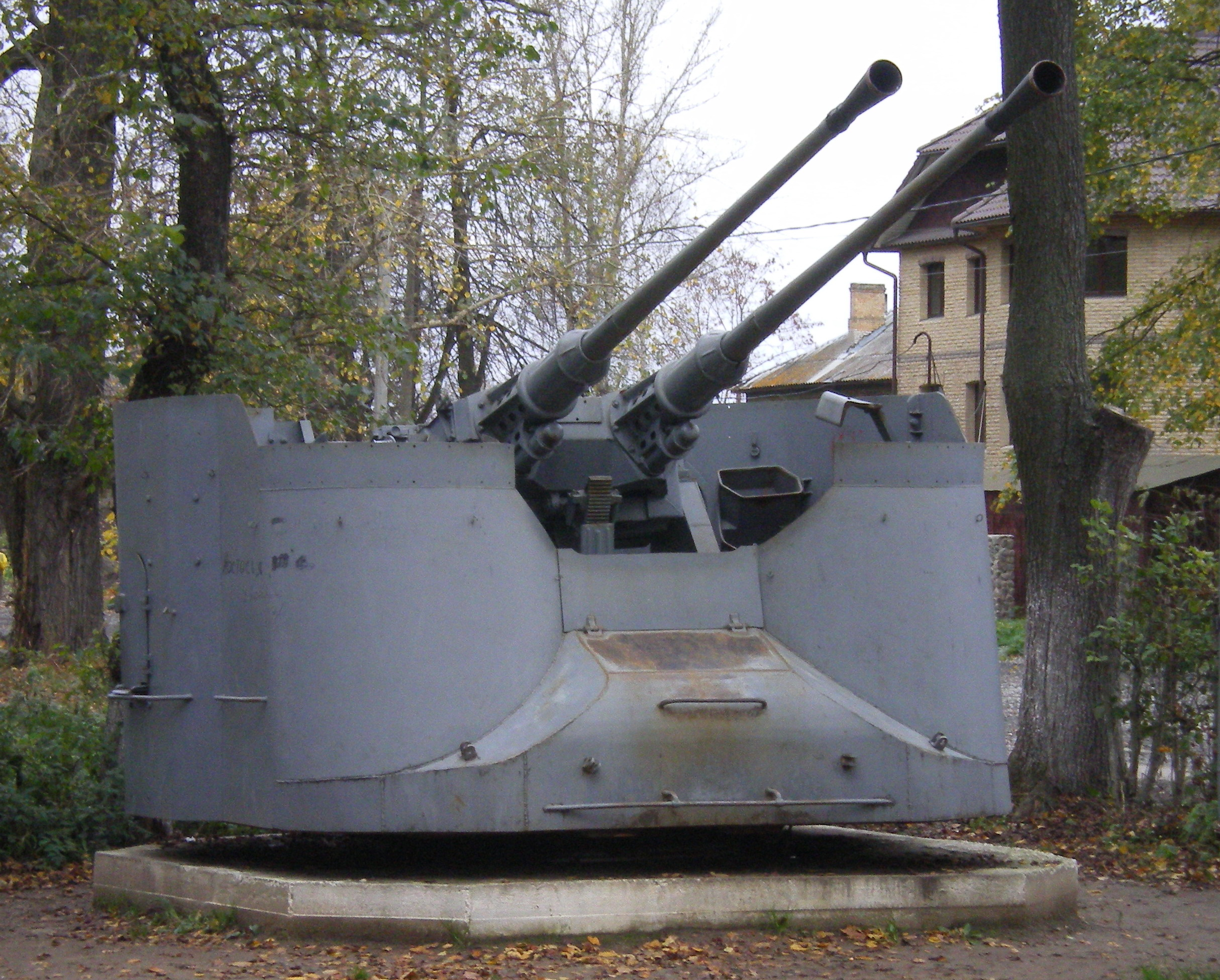 A Soviet ZiF-31 naval AA gun in "Echo of great battles" non-commercial museum, Shlisselburg.